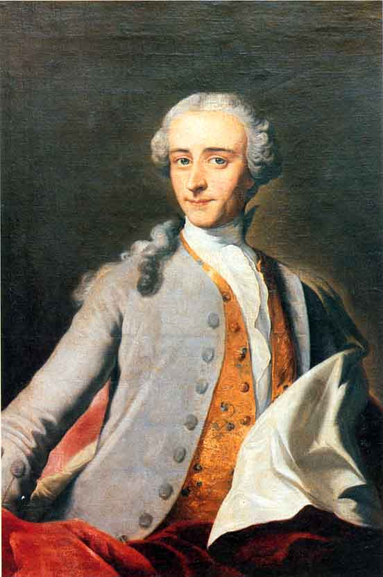 Christoph Balthasar von Esslin